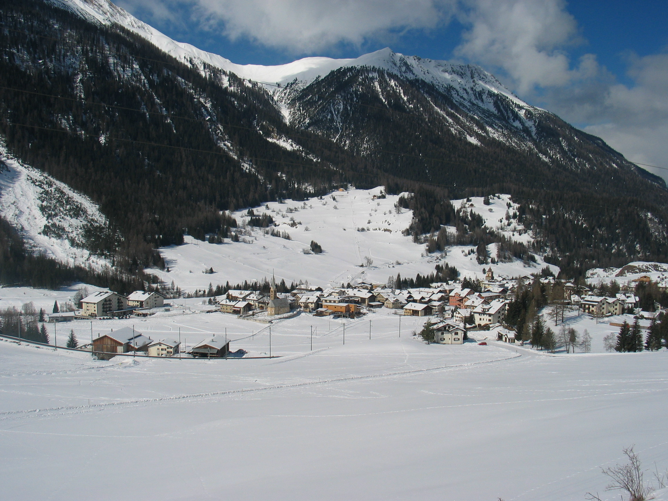 Bergün, Switzerland. from a Train bound to Preda